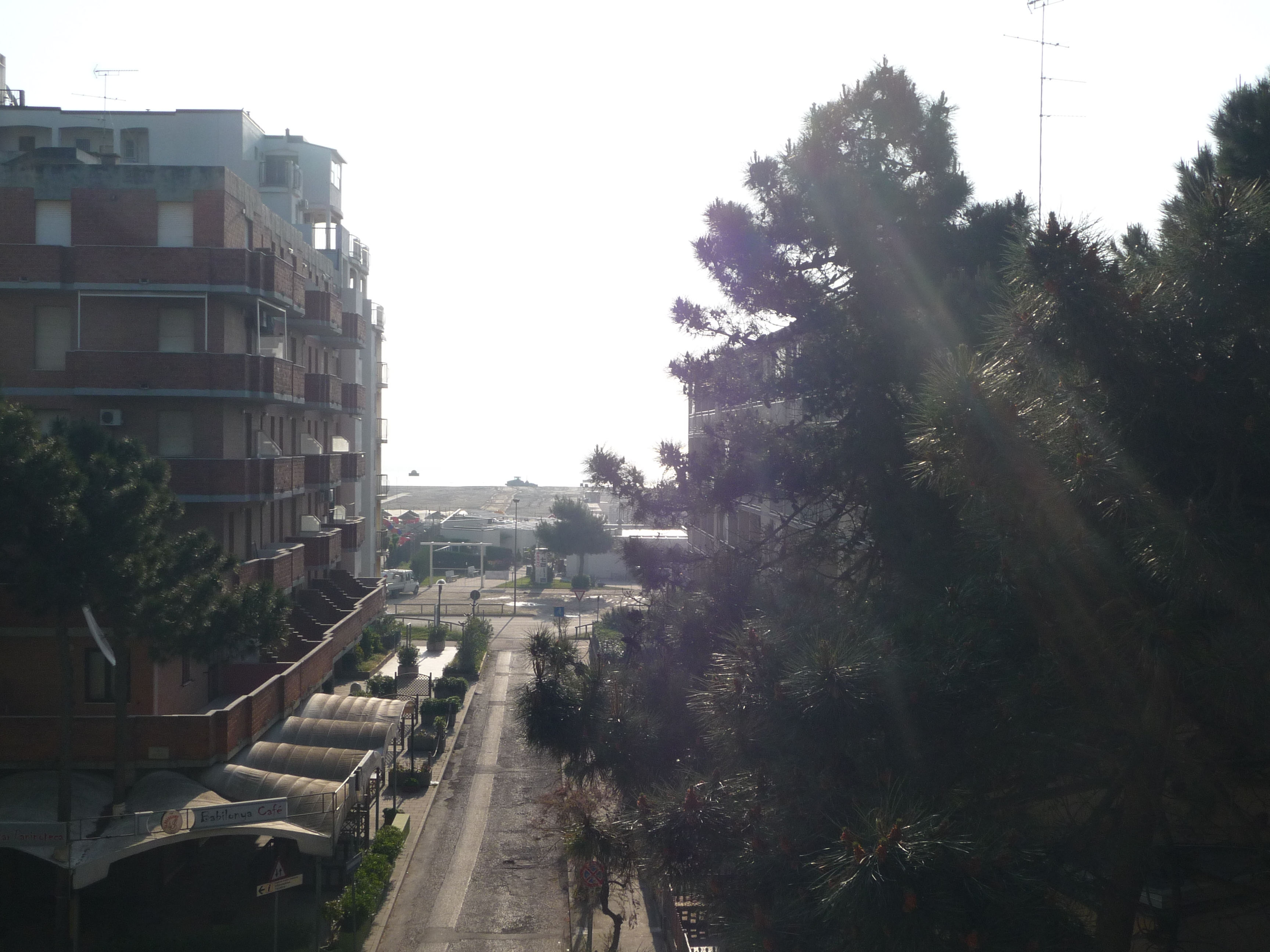 Panorama of Lido degli estensi